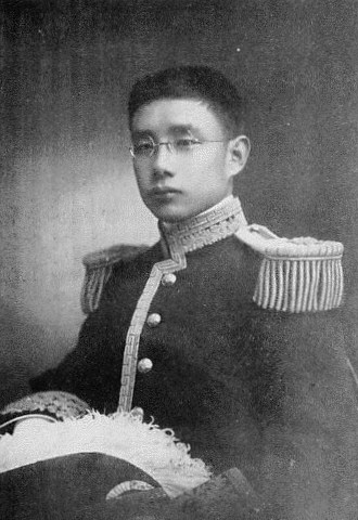 Yoshichika Tokugawa